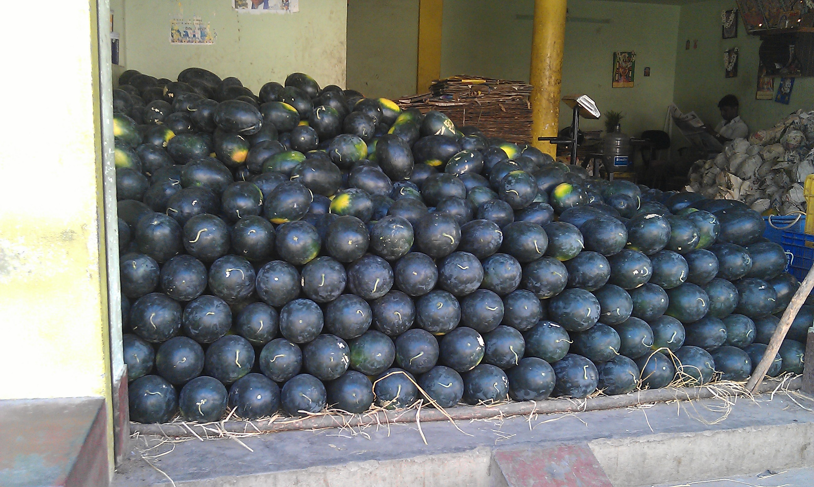 watermelon at Mysore India